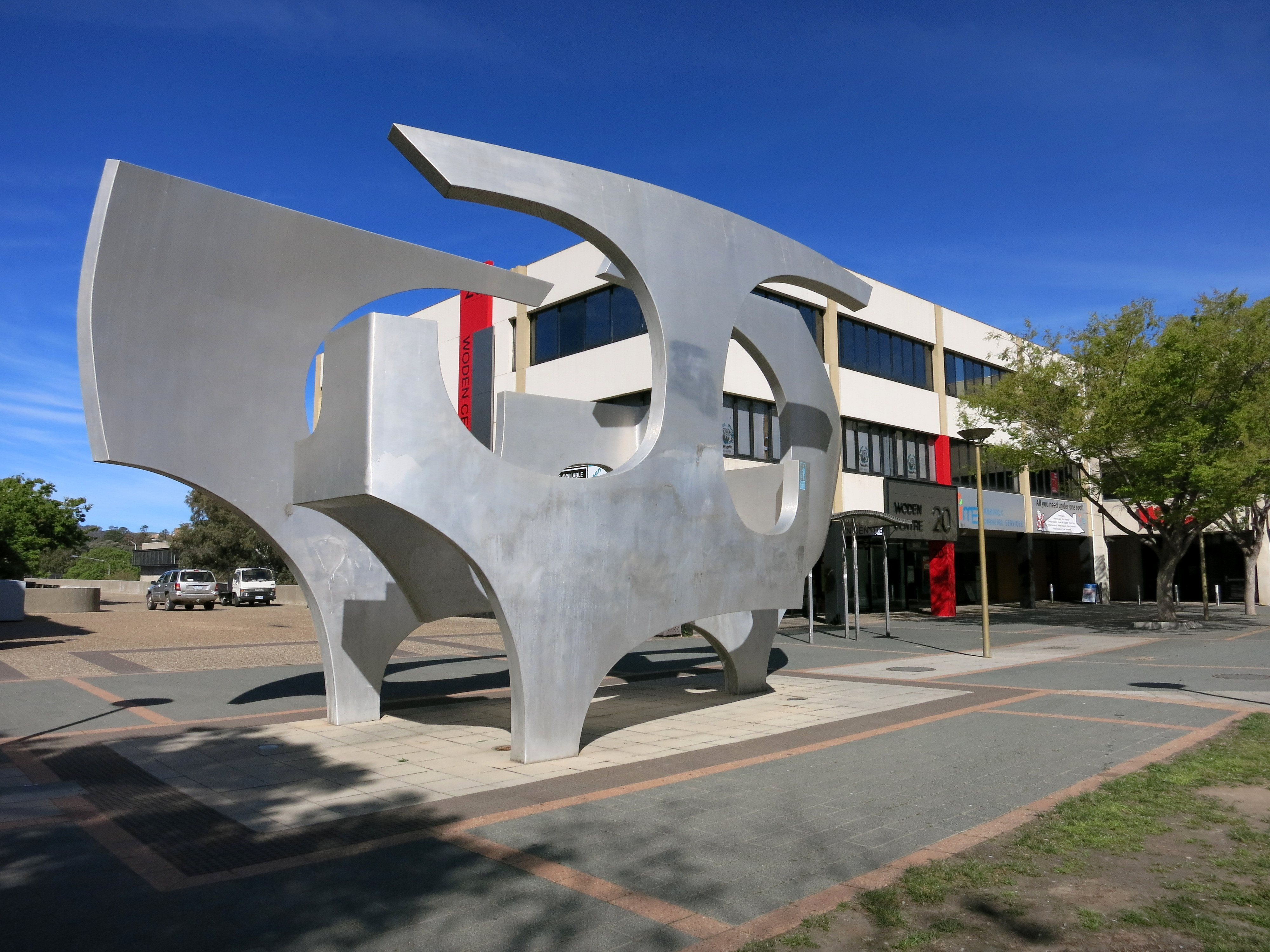 The sculpture Sculptured Form by Margel Hinder in Woden Town Centre